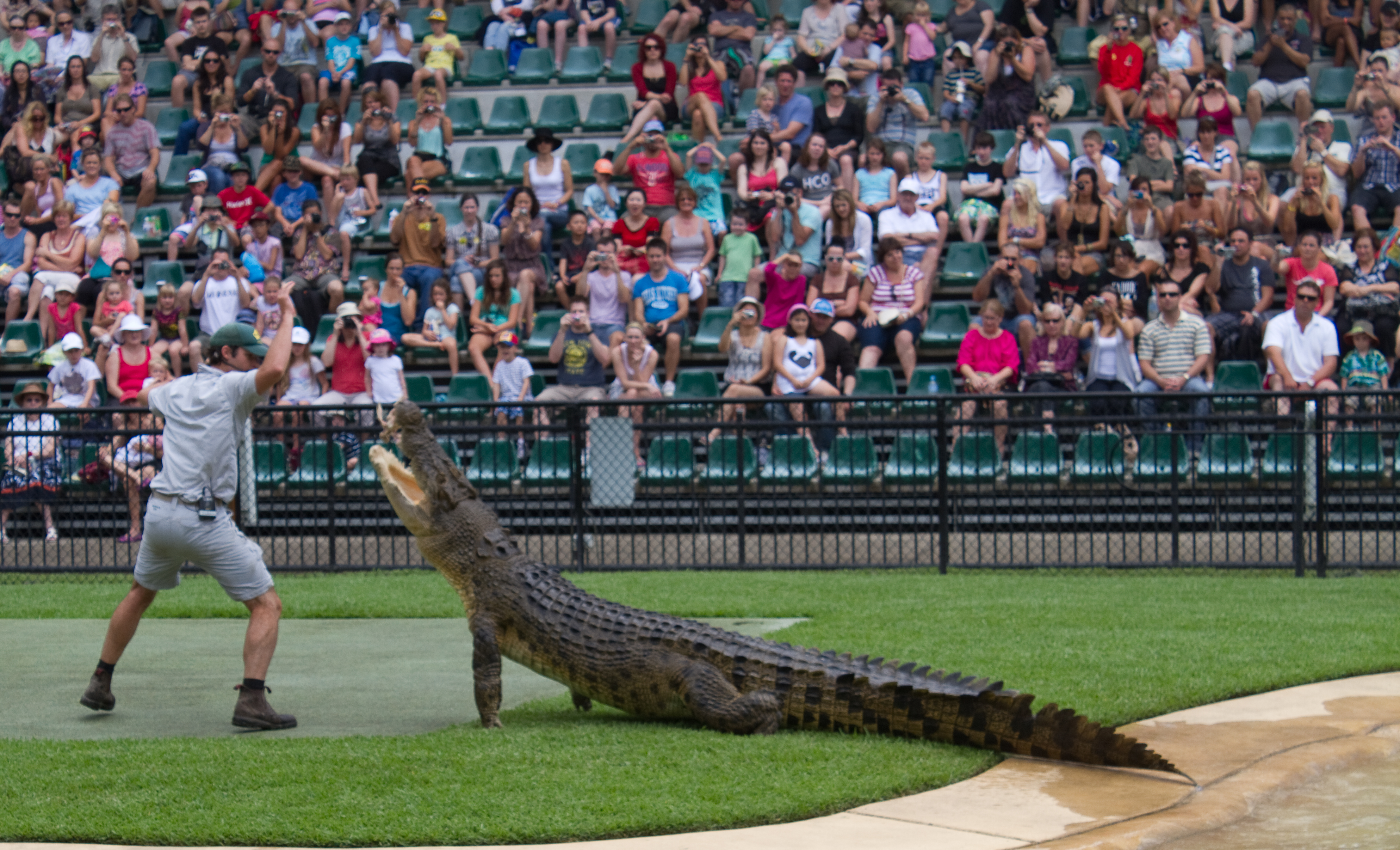 A crocodile display at Australia Zoo, Queensland, Australia.